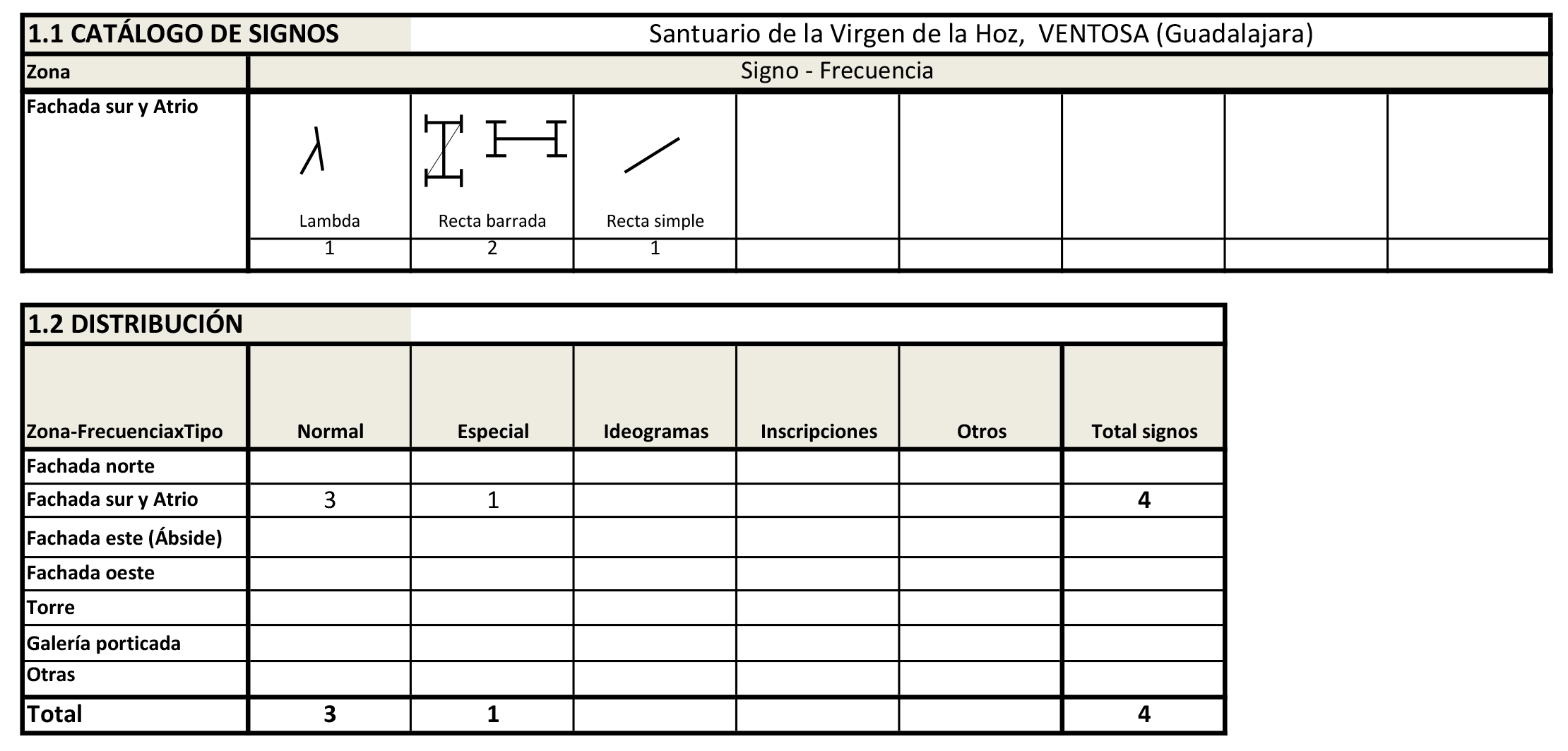 Virgen de la Hoz hermitage, VENTOSA (Guadalajara) España, románica s XIII. Stonecutter marks catalog.